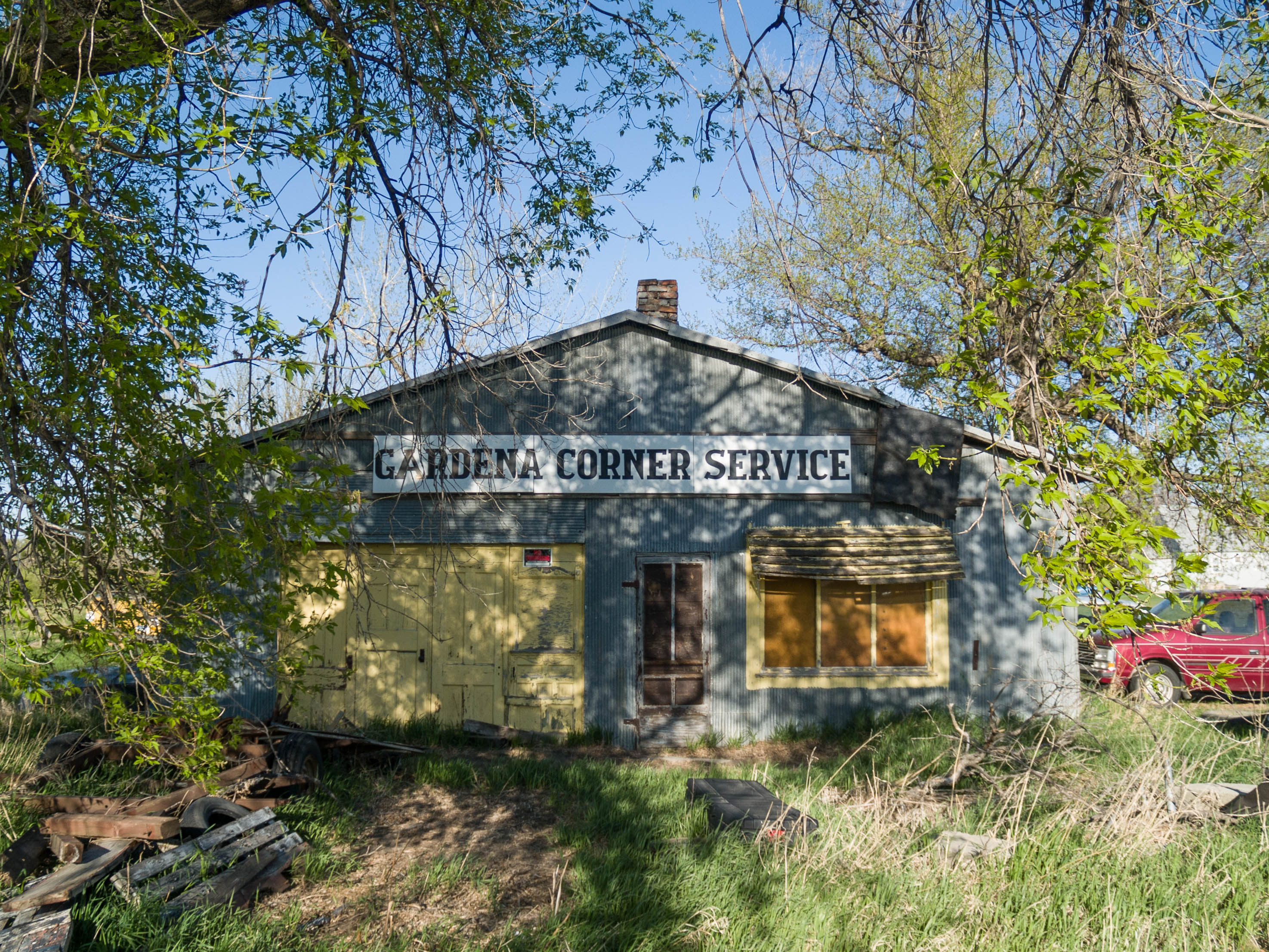 Gardena Corner Service - Gardena, North Dakota